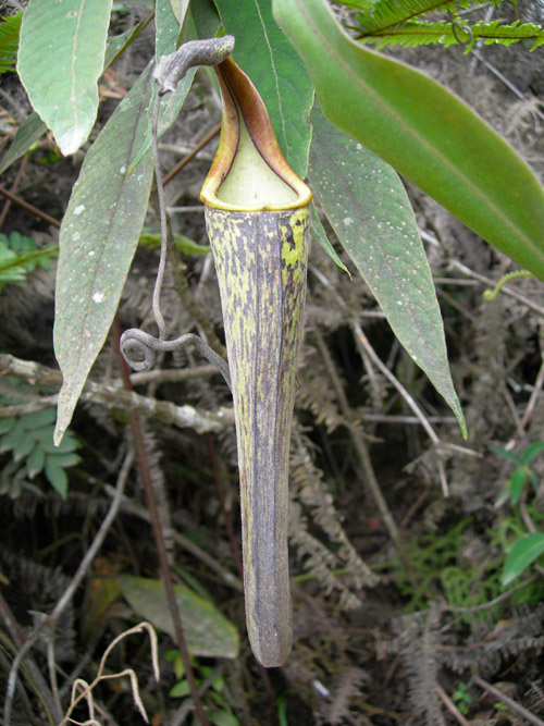 N.fusca Croker Range